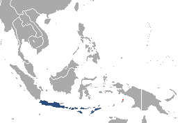 Javanese Shrew (Crocidura maxi) range